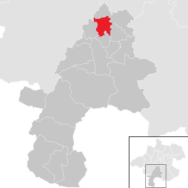 district Gmunden